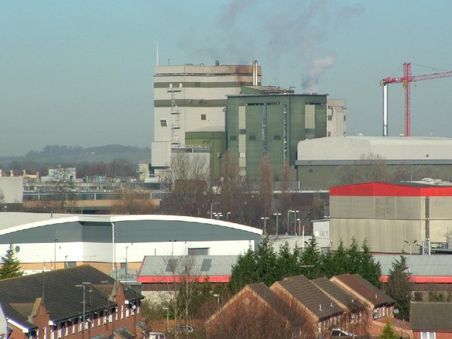 The Kraft Factory A familiar site on the skyline of Banbury of cloud manufactured by the Kraft Factory.